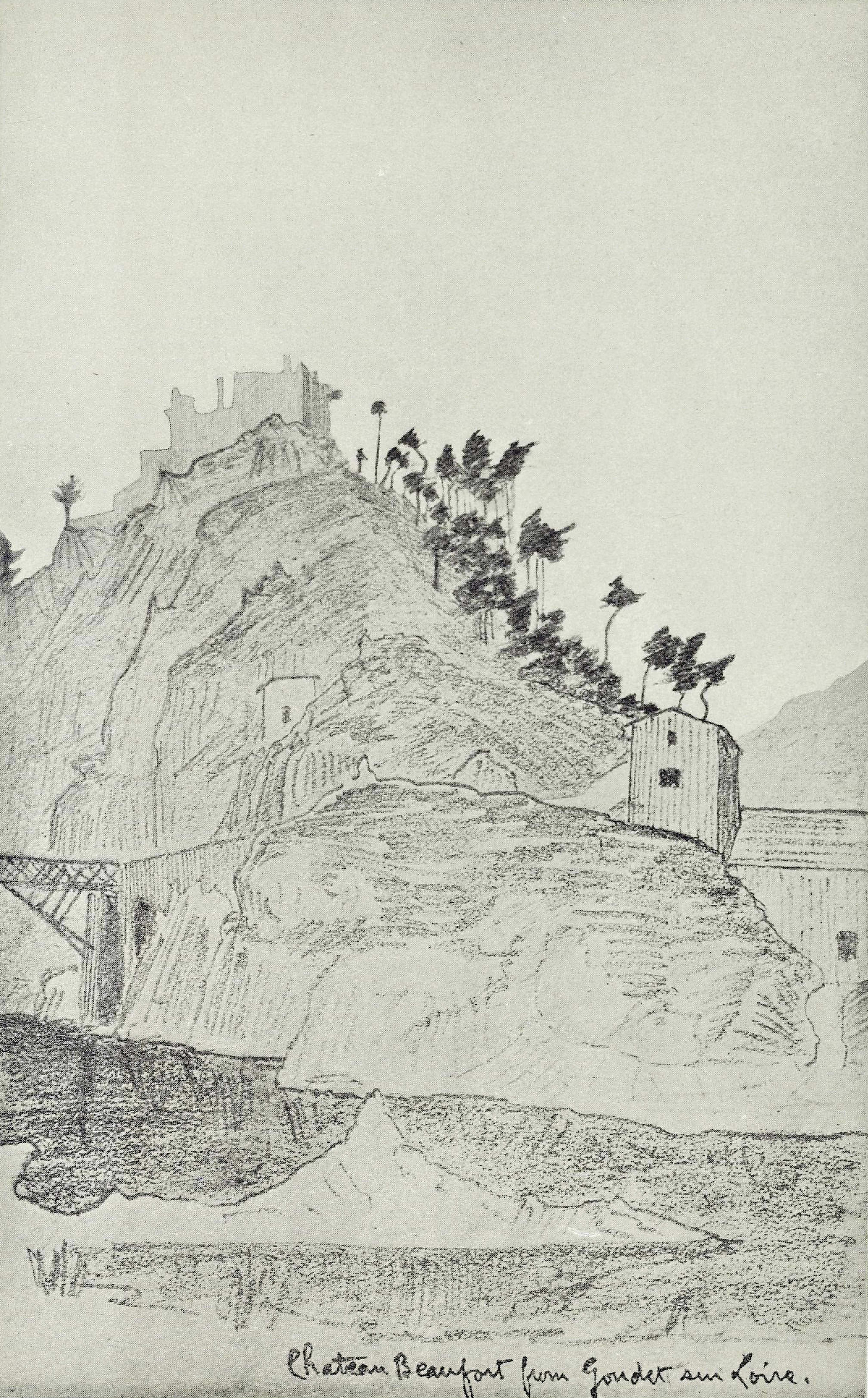 Drawing made during Stevenson's stay at Le Monestier, reproduced in 1897 in The Studio magazine